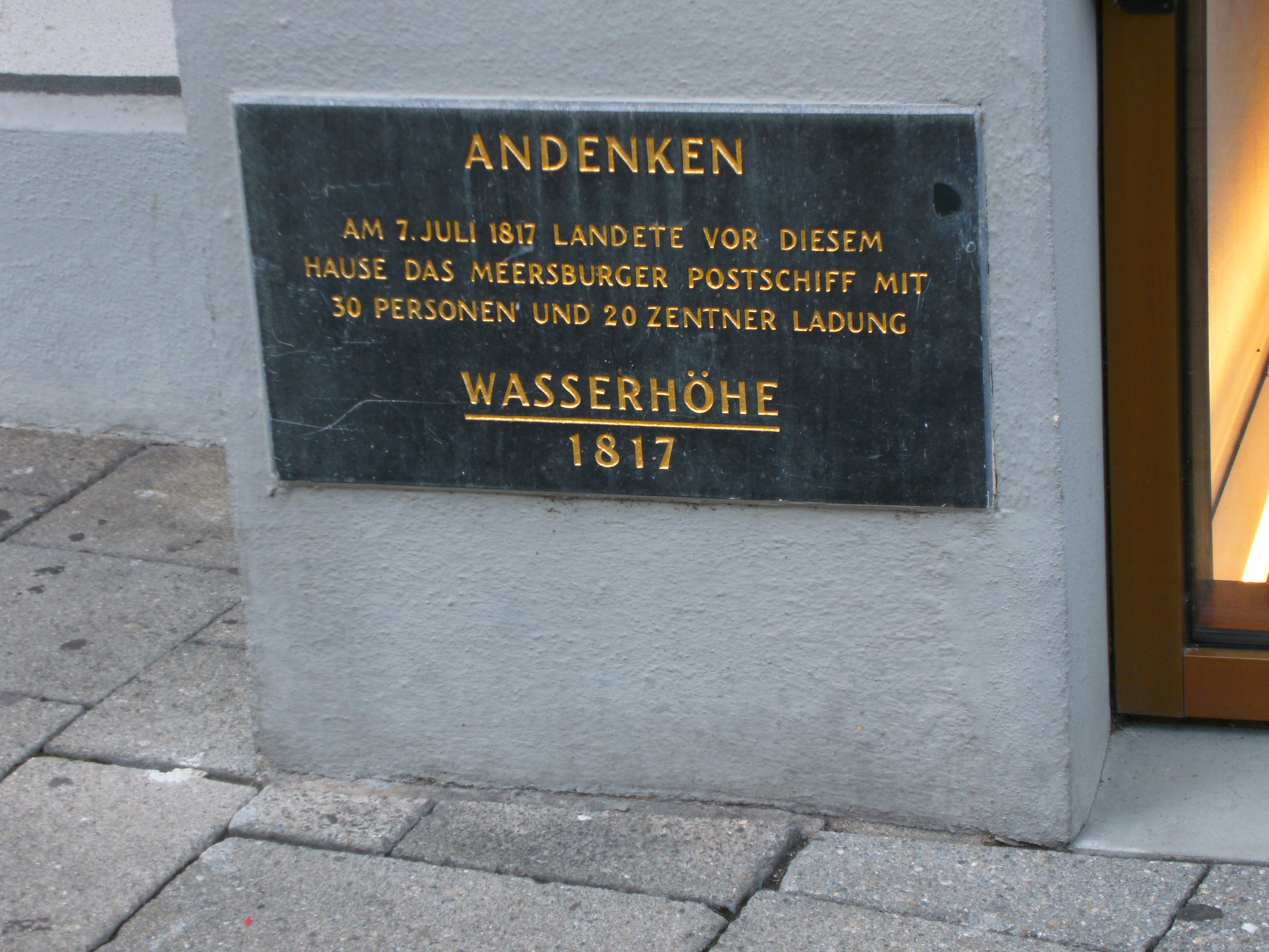 Konstanz, Germany, Marktstätte 16: Flood level sign to remember flood of Lake Constance in 1817.